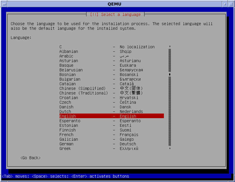 Language selection in the Debian GNU/Linux 7 installation program. Running in a QEMU VM.